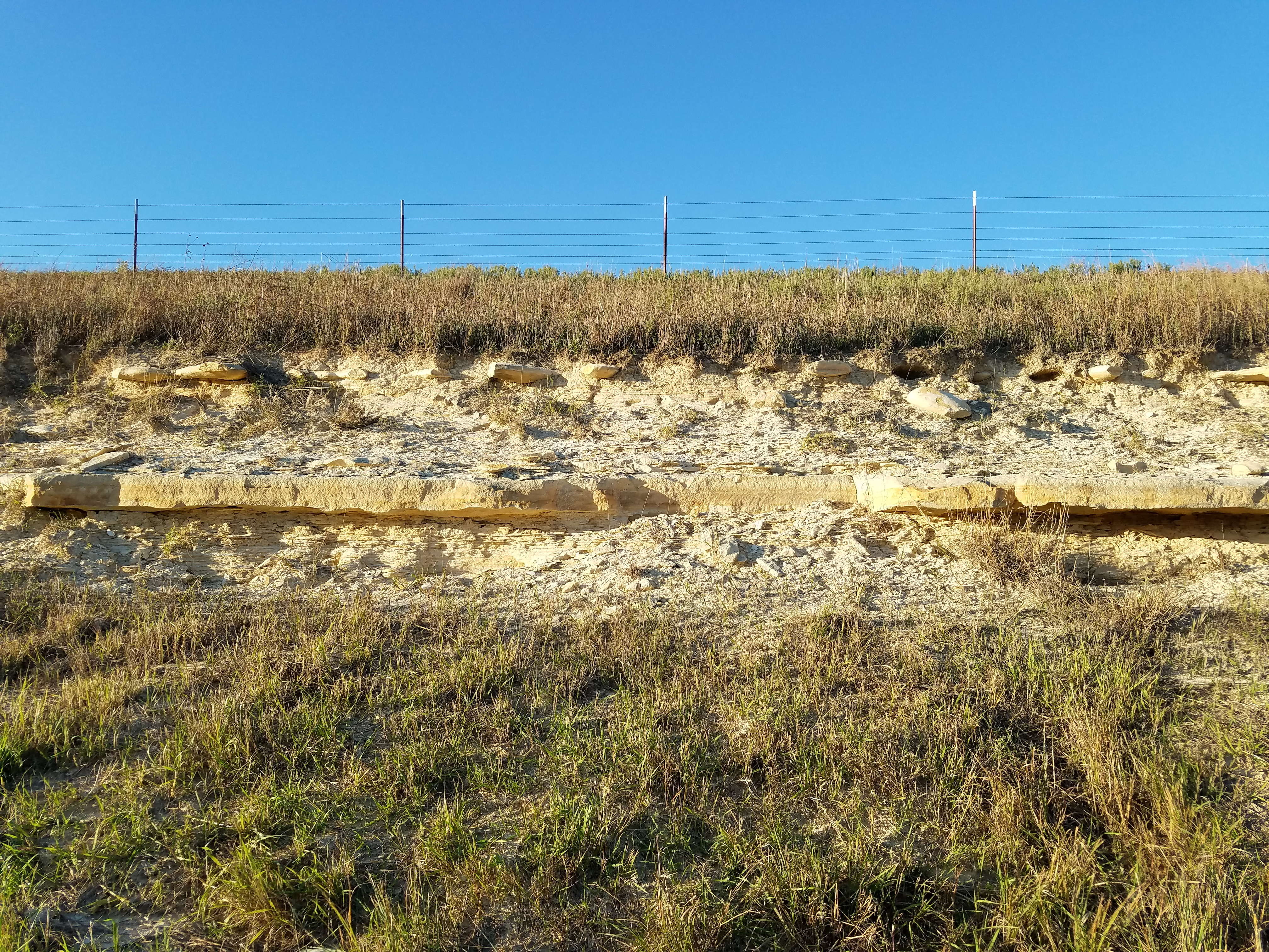 Easy public access; please, do not collect rocks or fossils at this location. Fencepost limestone outcrop in road cuts along the I-70 (Kansas) frontage road (Avenue B) between exits 219 and 221. Four identifying characteristics are immediately aparent in this view: thickness, the orange central streak, ovoid concretions a couple feet higher, placement of the bed 8–10 feet (2.4–3.0 m) below the crest of the hill. On closer inspection, the thin orange bentonite seam can be found inches below the limestone bed, and the charactestric Inoceramnus, Ammonite, and Belemite fossils can be found in the limestone.